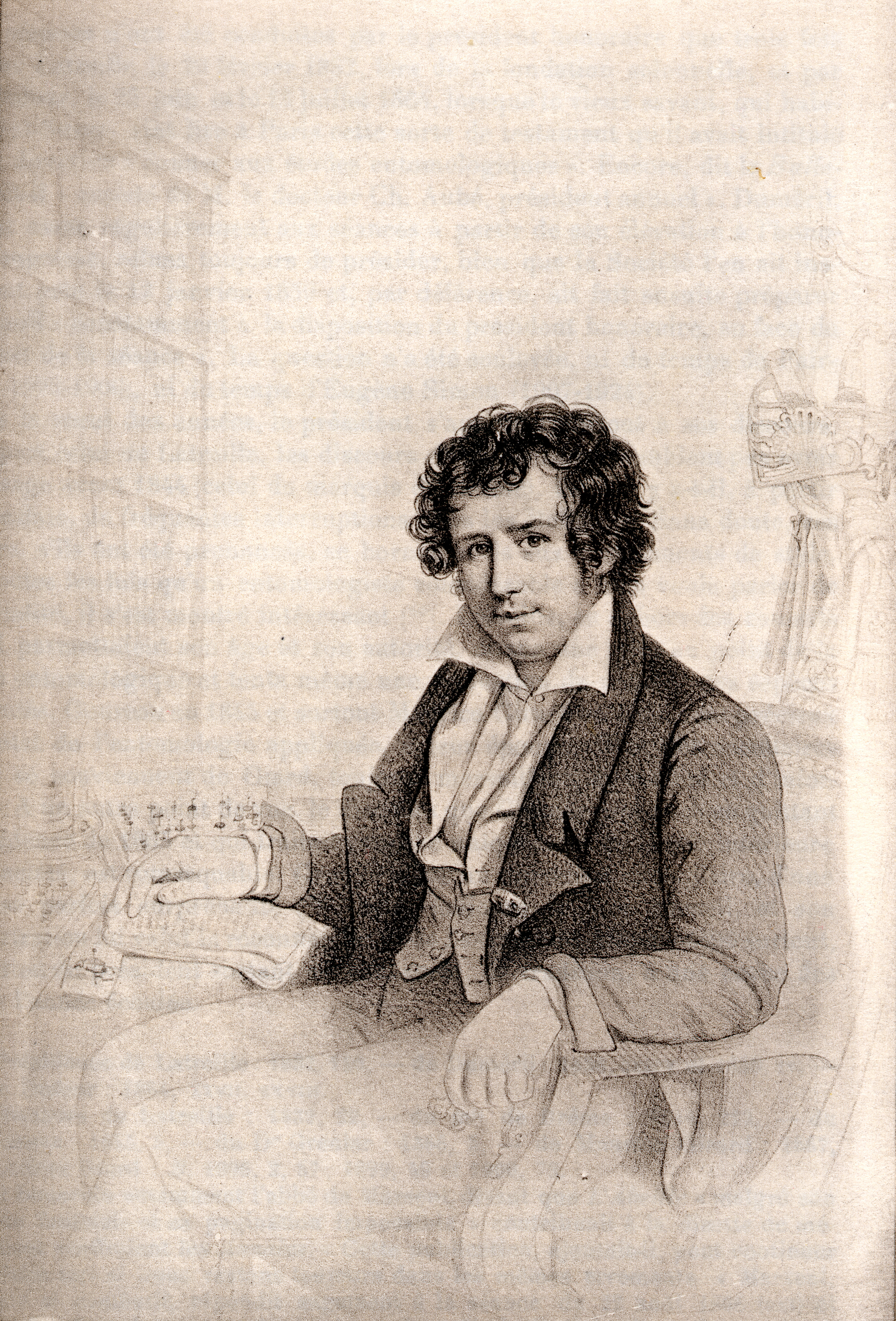 Drawing of Pierre François Marie Auguste Dejean (1780–1845), French entomologist